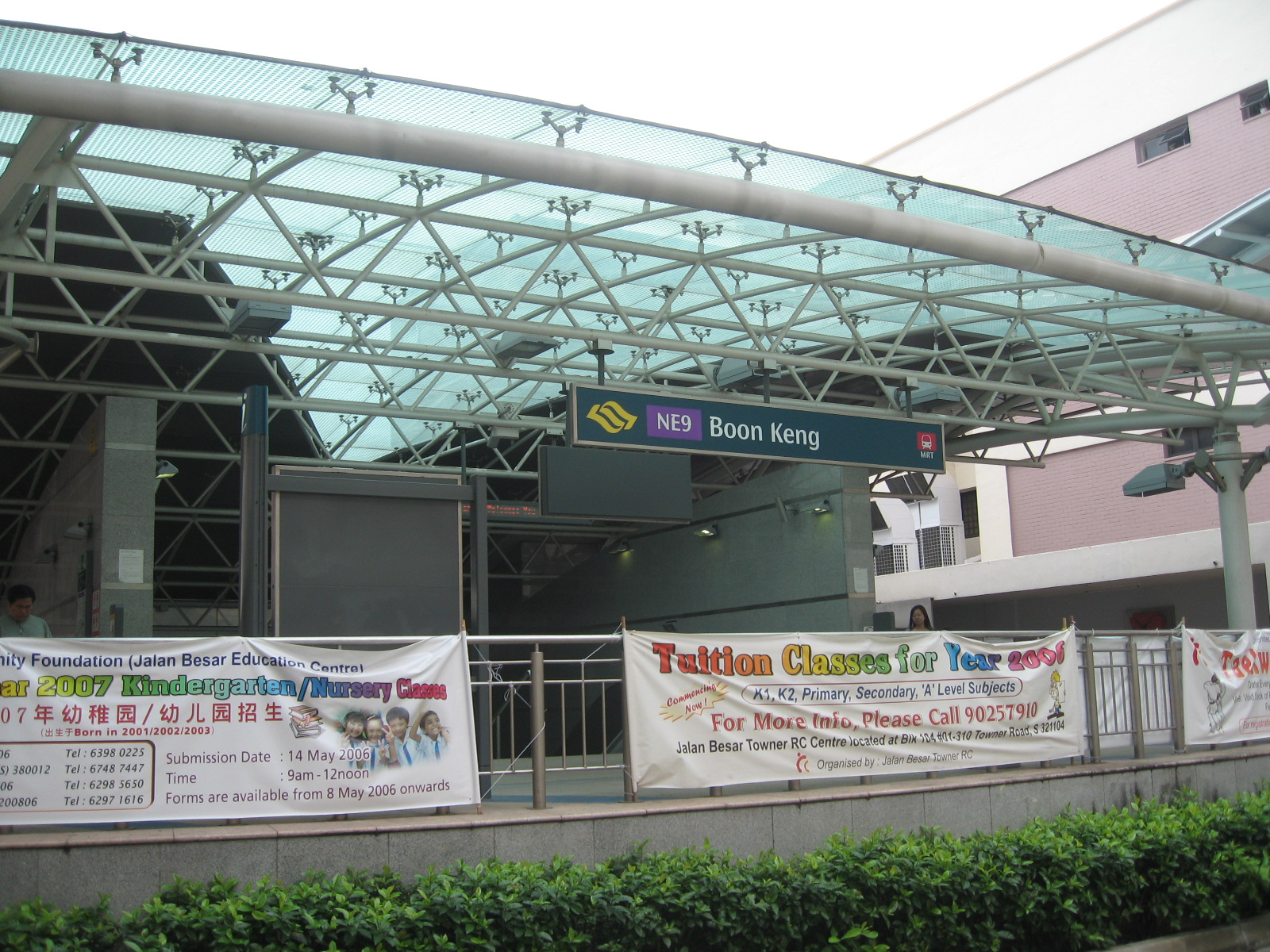 Boon Keng MRT Station.